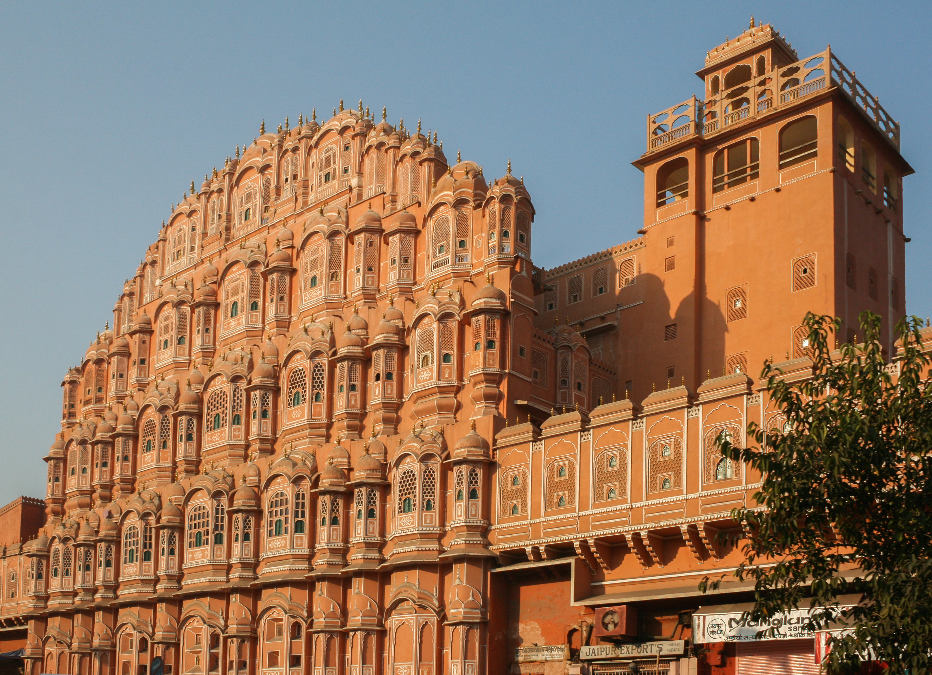 Hawa Mahal or Wind Palace, Jaipur, India